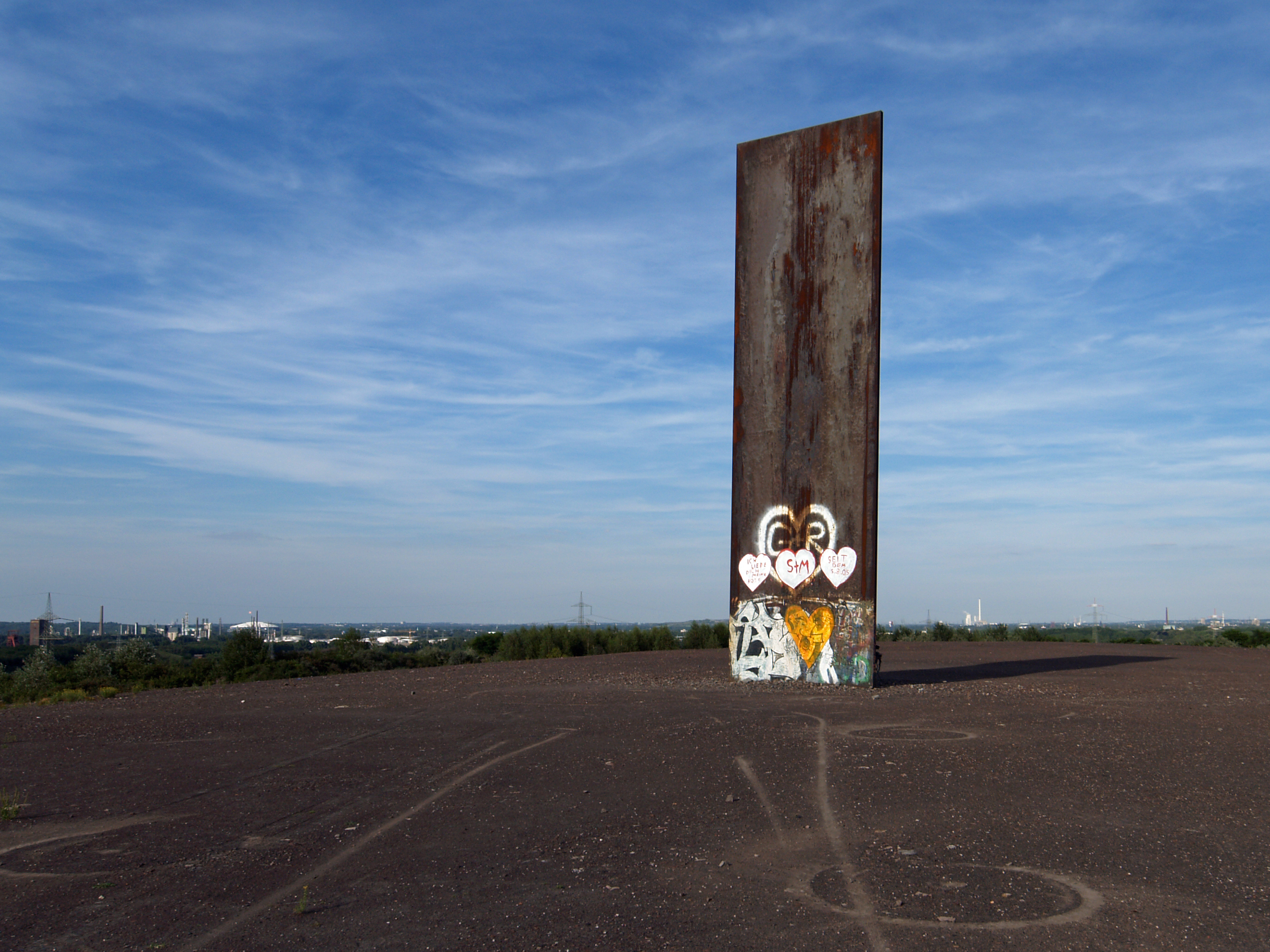 A monument, made of steel by Richard Serra for the Ruhr Area on top of the Halde Schurenbach in Essen, Germany